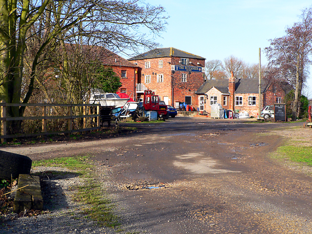 Dogdyke. The line carrying Flanders & Swann's "Slow Train" ran across the frame - a solitary sleeper hints at a busier past. The buildings are now occupied by the Bell Isle Marina and its Buccaneer Bar. See also 110677